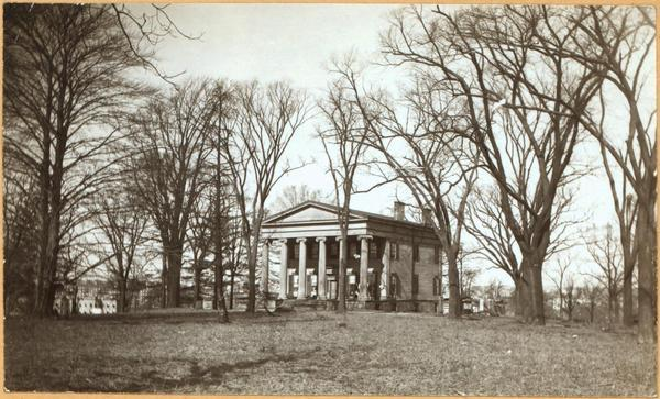 Description from New York Public Library Digital Collections ( Barretto Street, west side, between Lafayette and Garrison Aves., showing the Faile Mansion on the former estate of Edward G. Faile. It was built in 1832. The G.W. Bromley map of 1923 as revised to September 1932 shows the site of the mansion to be occupied by two 1-story iron structures of the American Bank Note Company. 1906. Git of Randall Comfort. CREDIT LINE IMPERATIVE ON ALL REPRODUCTIONS. Neg. # 1363 The NYPL requests this be cited as follows: [1]